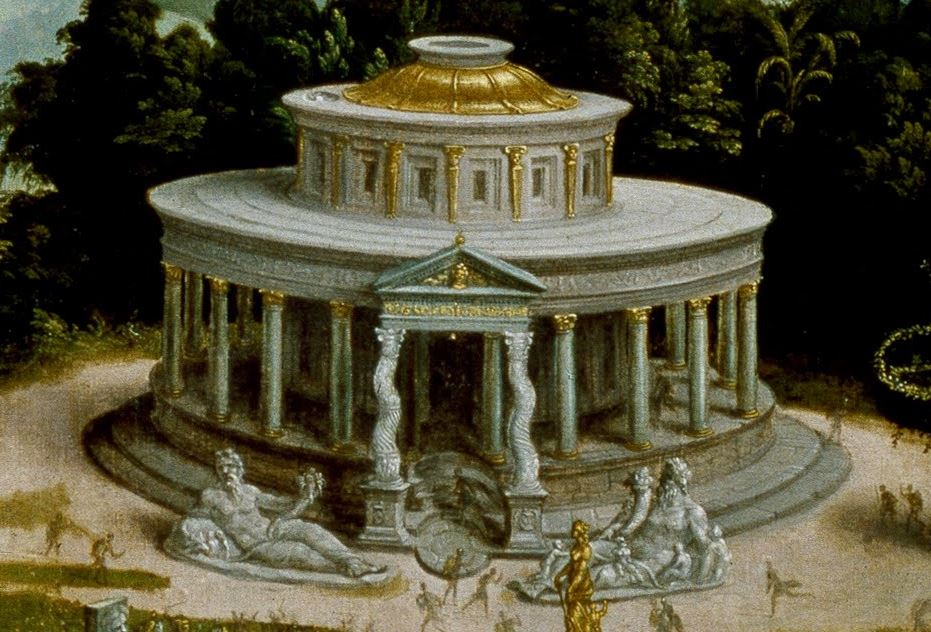 Details of a painting showing the temple of Isis in Roma with the statues of the Tiber and Nile rivers.